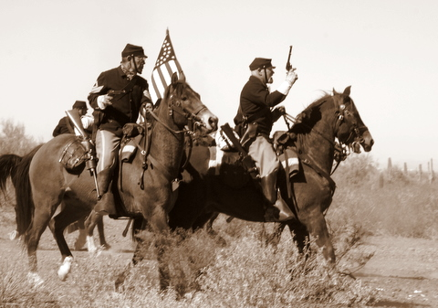 Re-enactors participating in a re-enactment of the Battle of Picacho Peak, Arizona